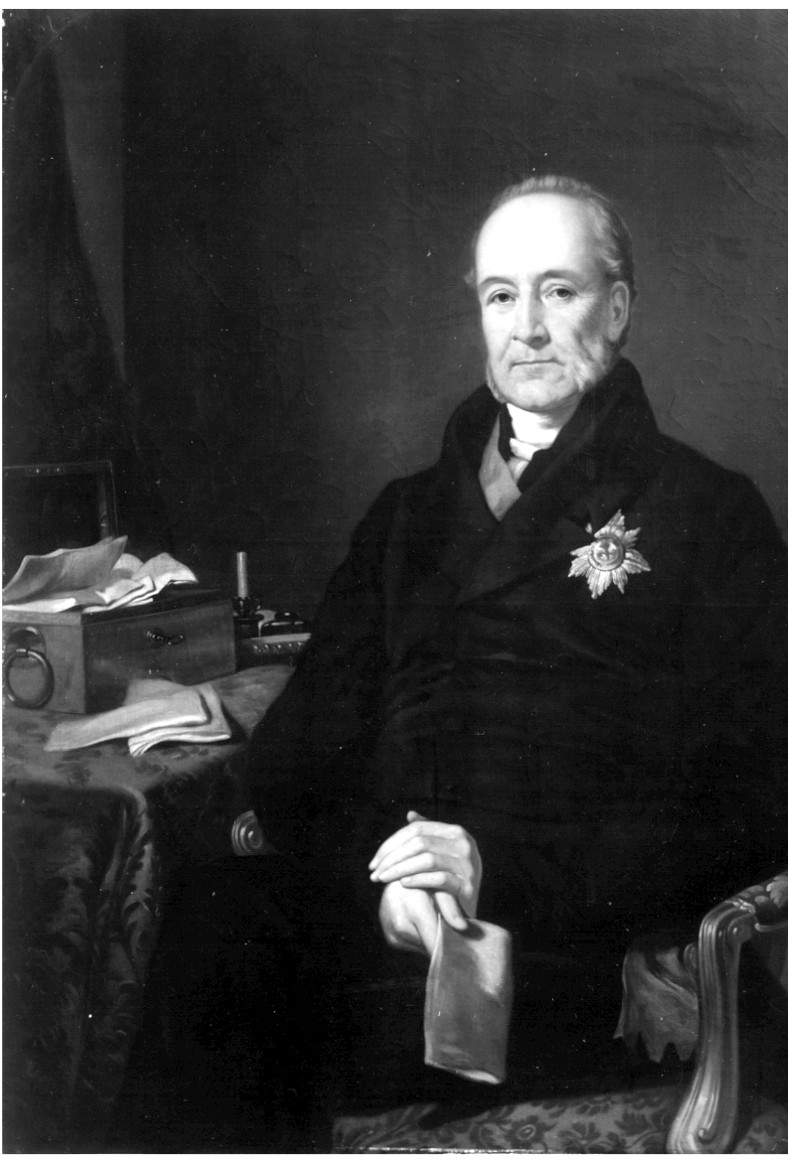 William à Court 1st Baron Heytesbury Courtesy of the National Gallery of Ireland